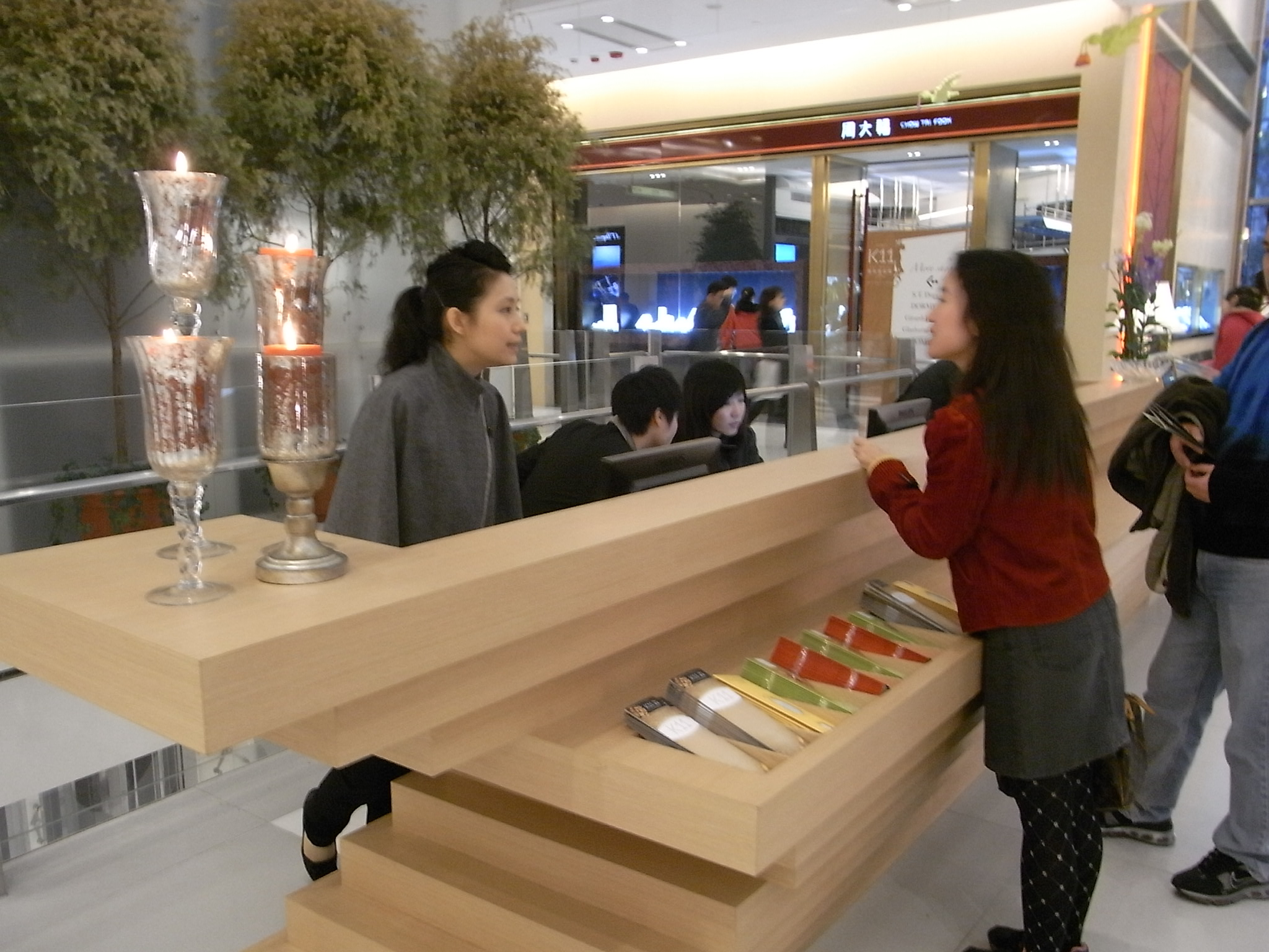 尖沙咀K11購物藝術館商場